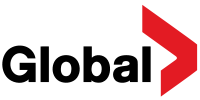 logo